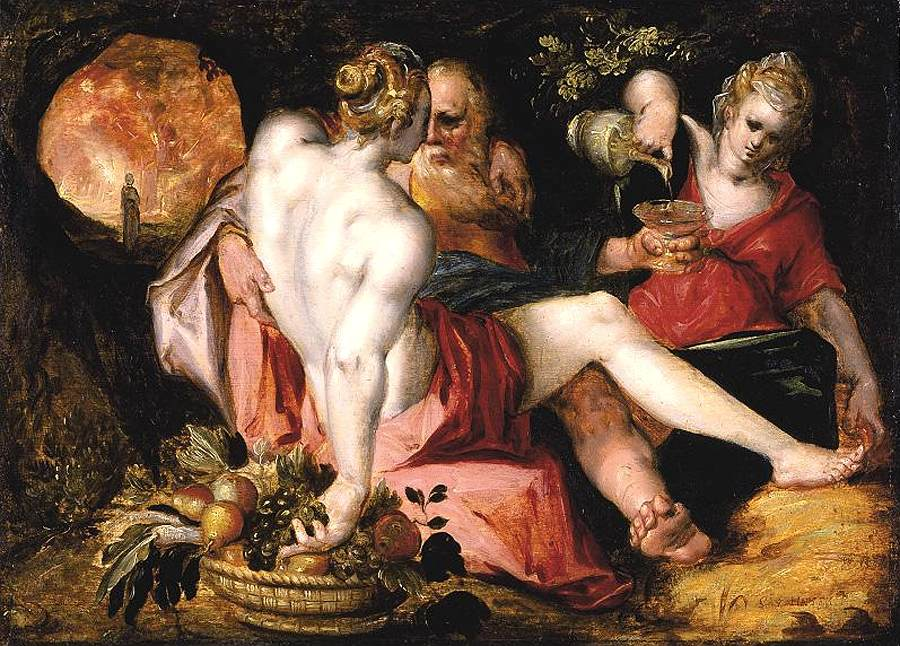 Though signed above right C.v.Harlem P., indicating Cornelis van Haarlem, and sold as such as recently as 1965, this work has since been attributed to Jan Harmensz. Muller, who often signed his works with the signature of other painters, including his own father.